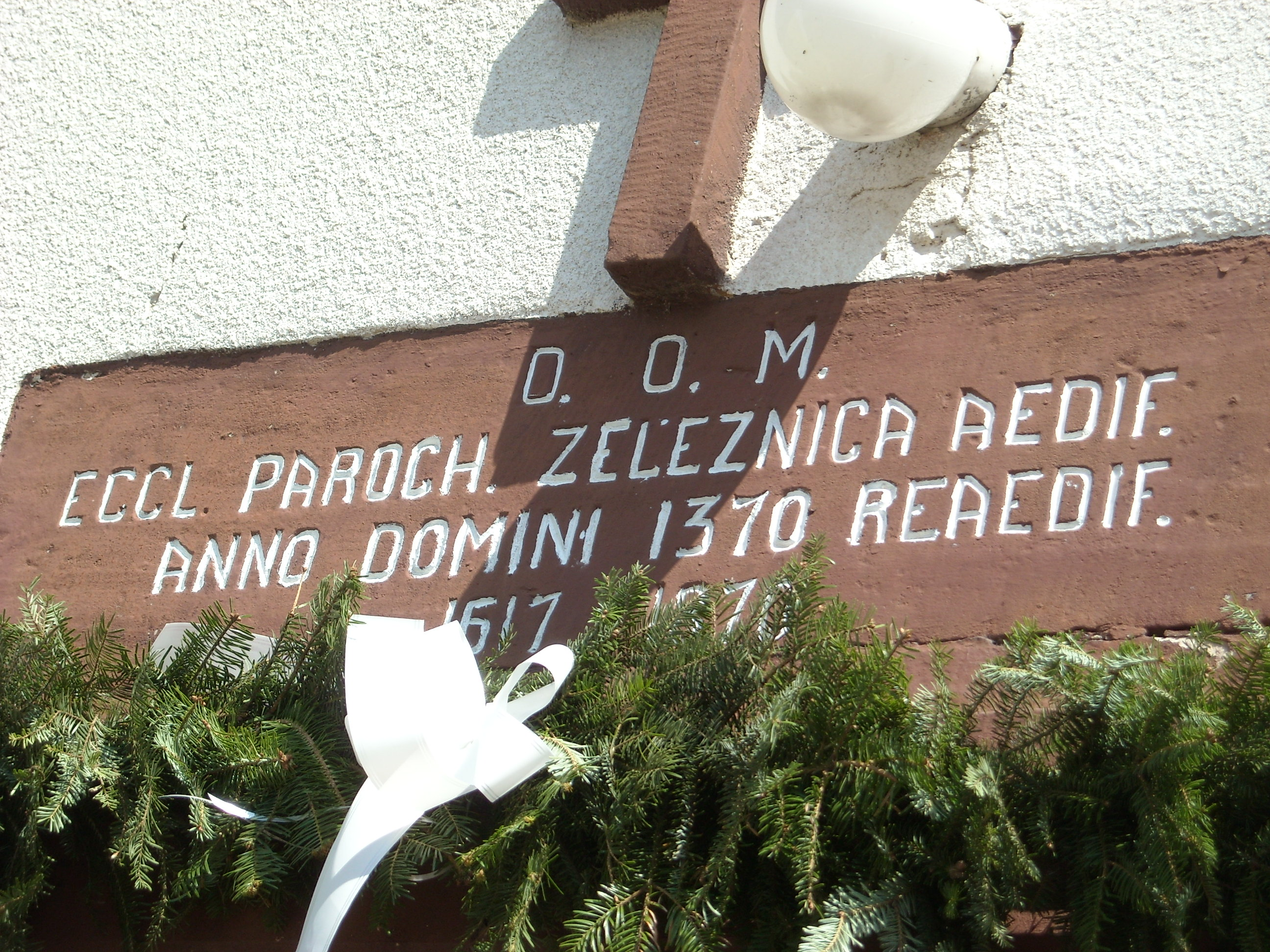 Church in Żeleźnica